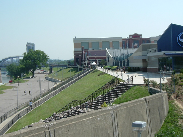 Newport KY waterfront